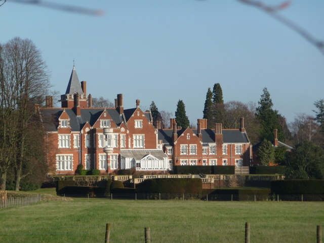 Bagshot Park